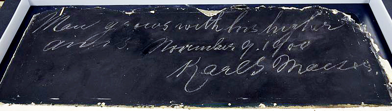 Karl G. Maeser's handwriting preserved on this chalkboard from the Maeser school in Provo.